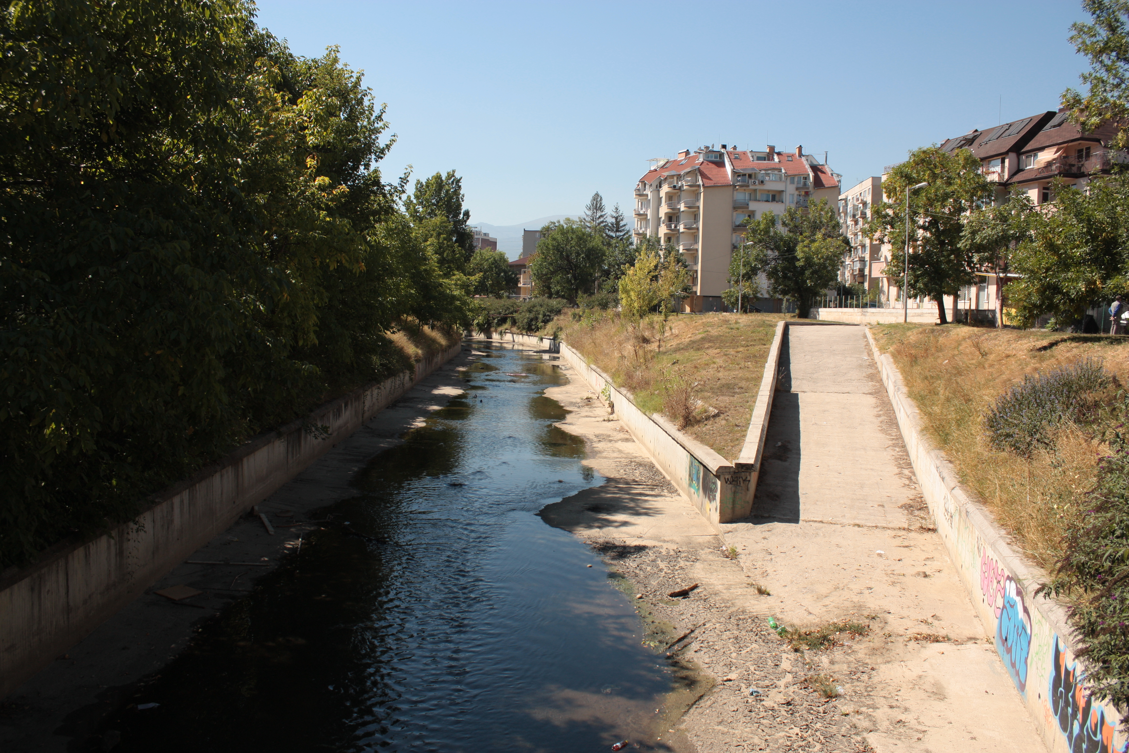 Slatina River in Sofia, Bulgaria